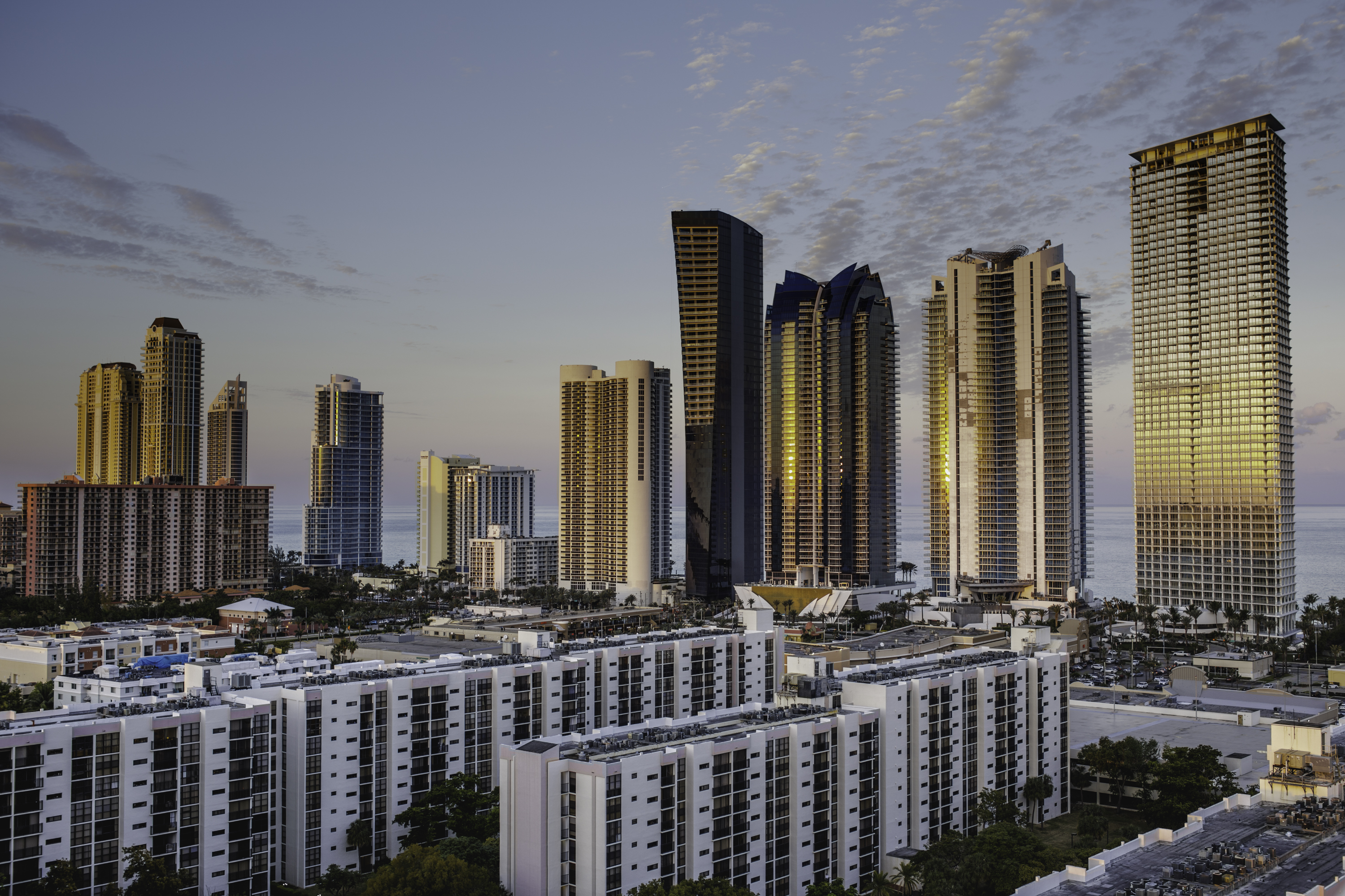 Sunny Isles Beach, Florida.